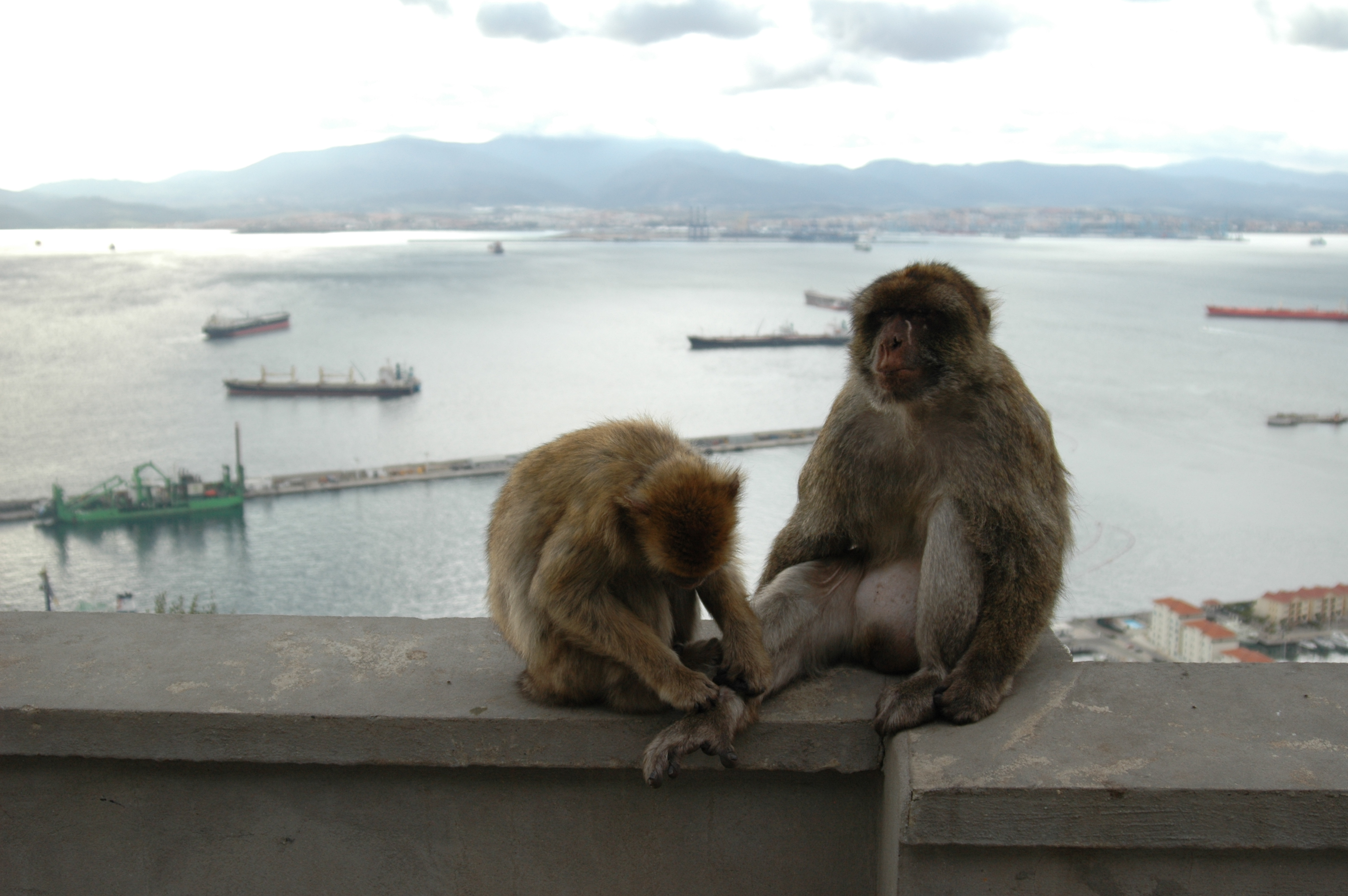 Barbary macaques at Prince Ferdinand's Battery, Gibraltar